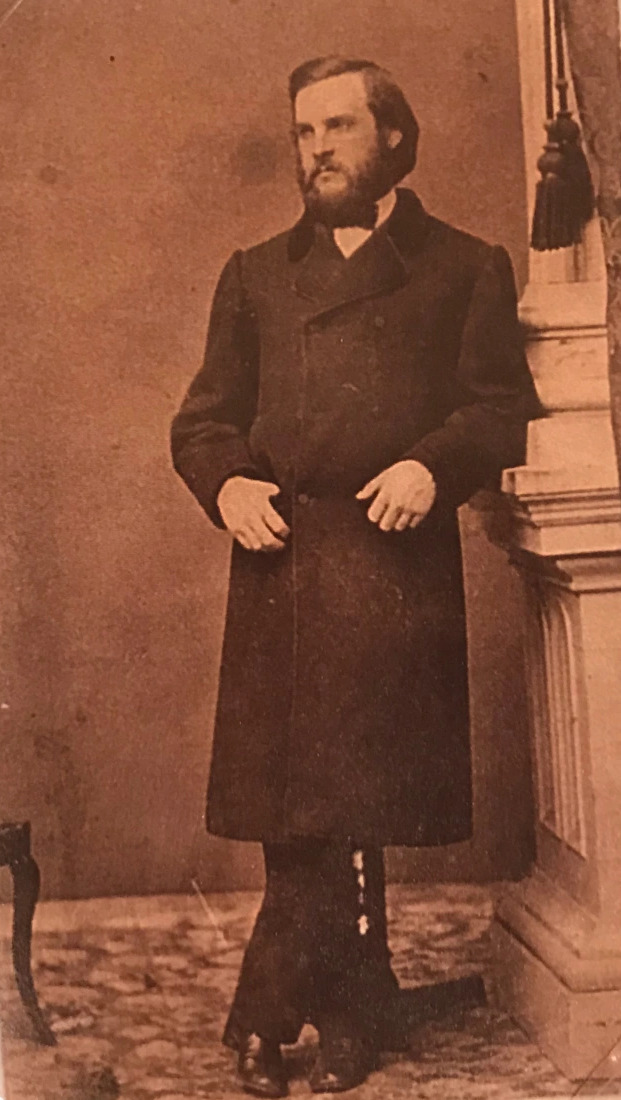 An early undated photograph of Grover Cleveland [2.25"x3.5"] from